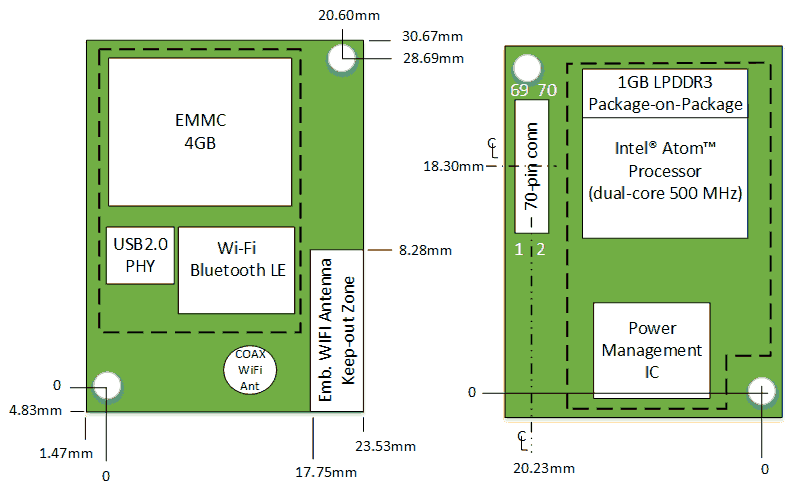 Intel Edison PCB Block Diagram